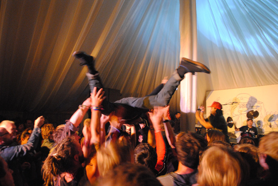 Crowdsurfer at End of the Road Festival 2010